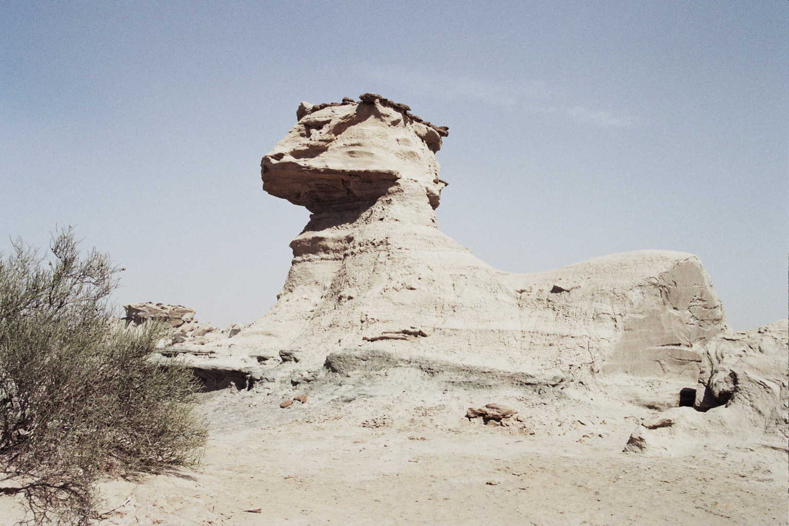 "The Sphinx", Ischigualasto